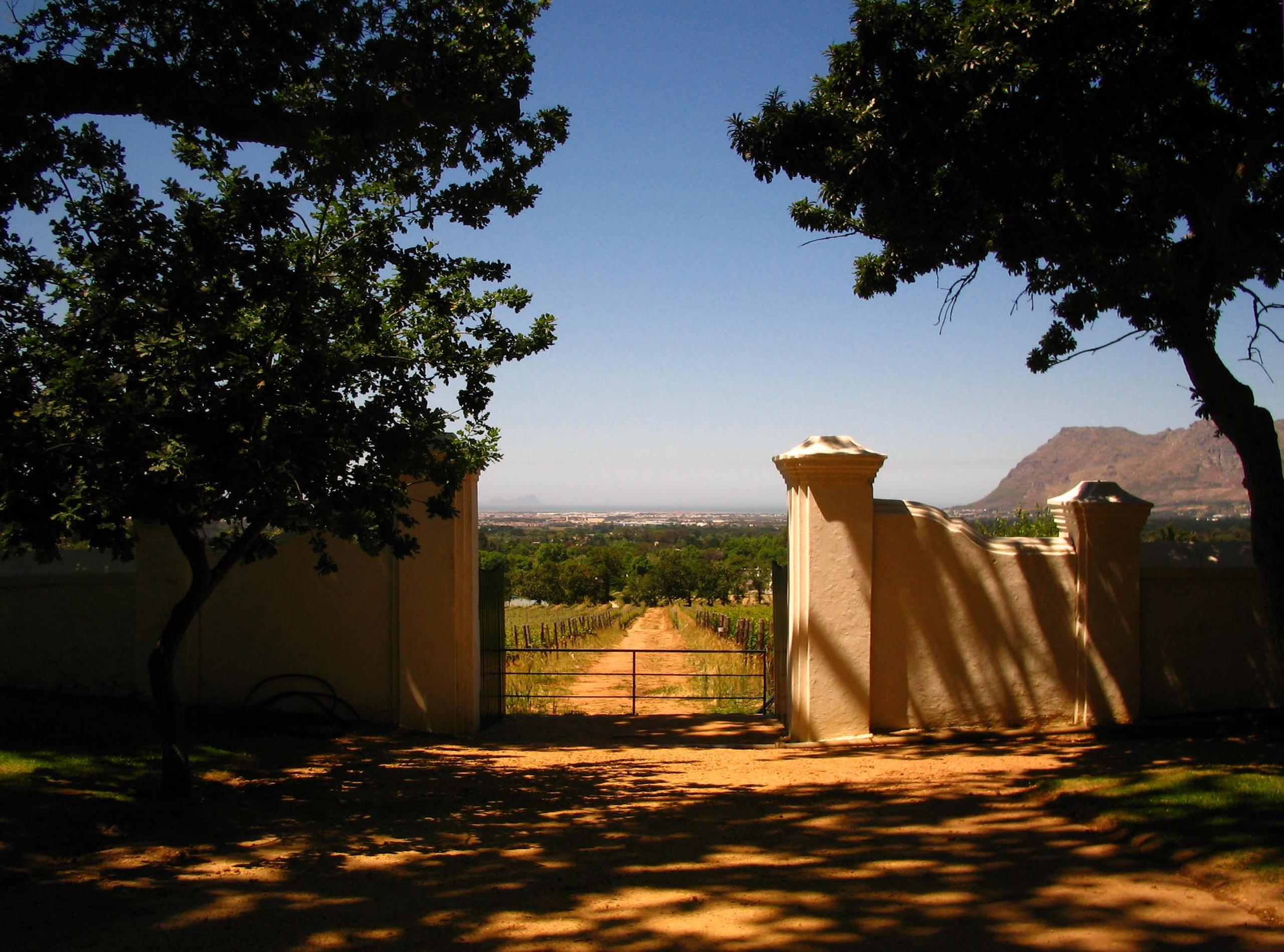 Wall in the Groot Constantia estate near Capetown looking in the direction of Vlasbaai.